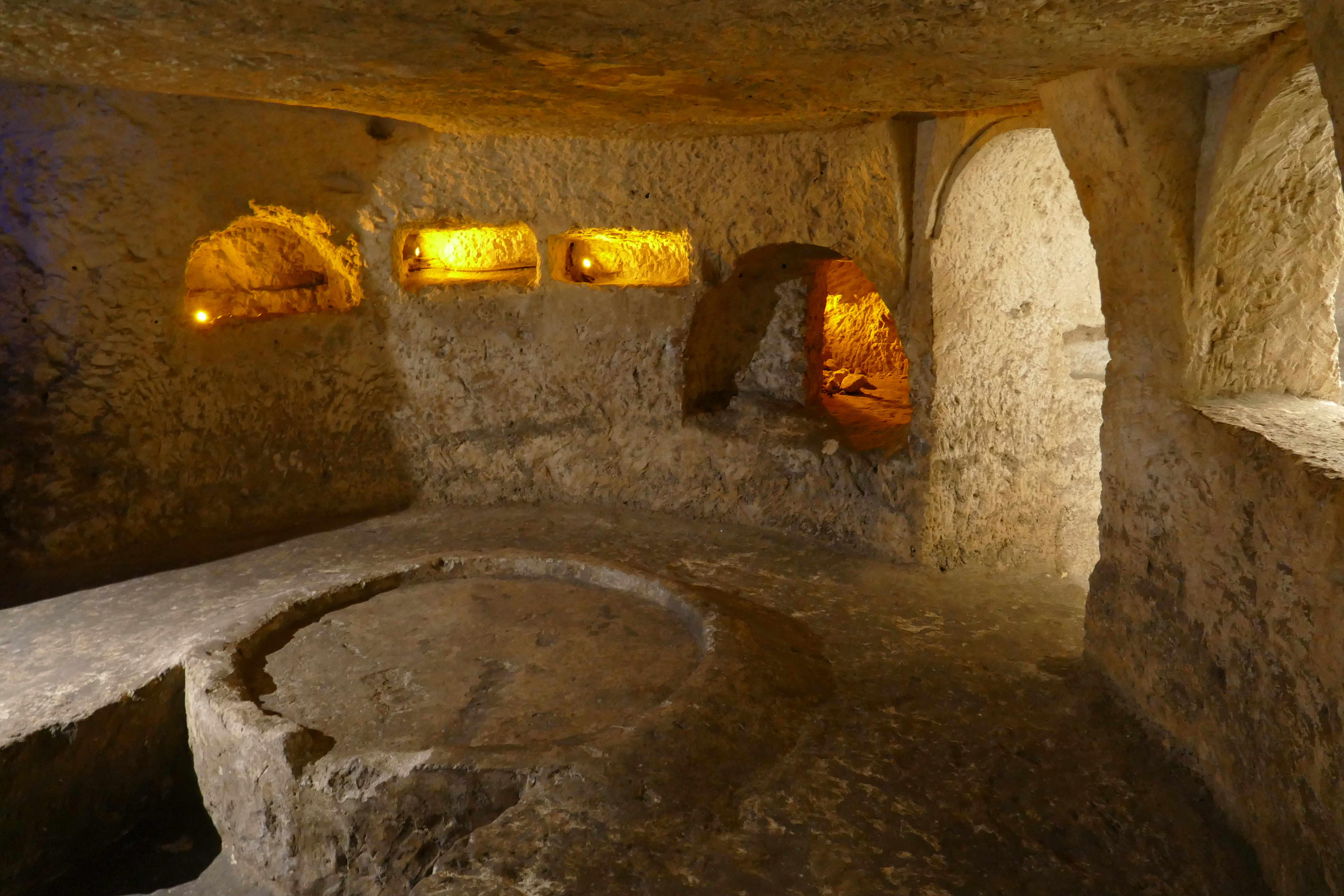 St Catald Catacombs